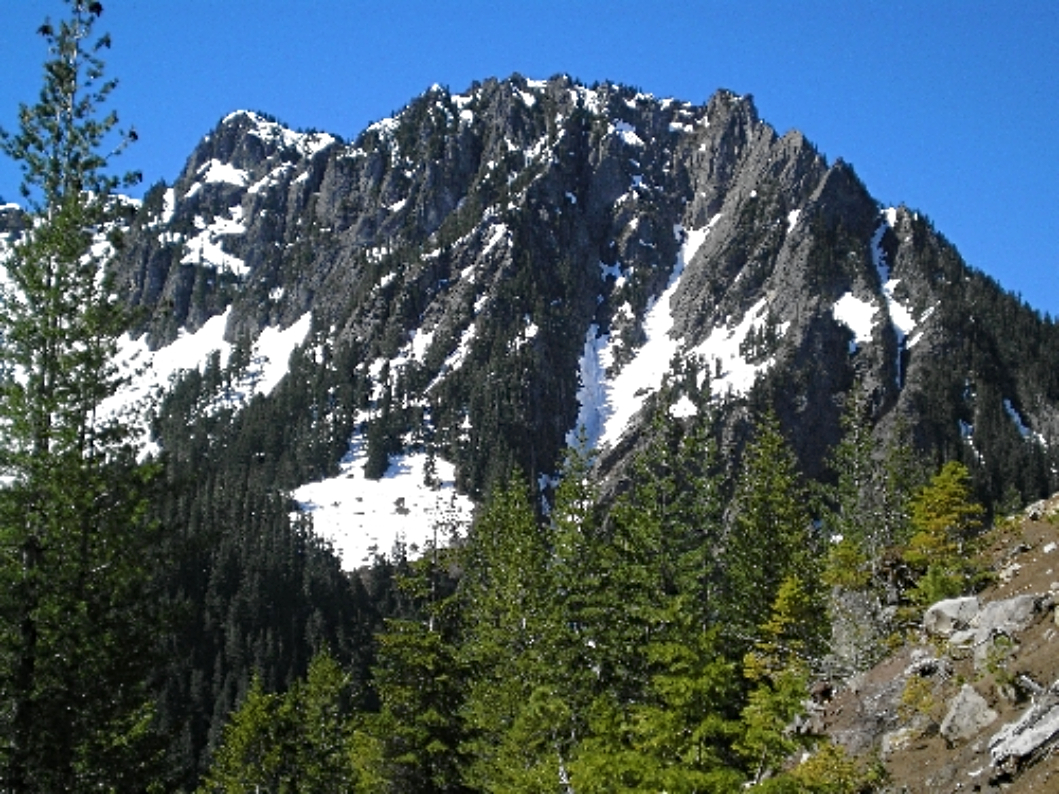 Eagle Peak seen from near Ricksecker Point. Mount Rainier National Park.